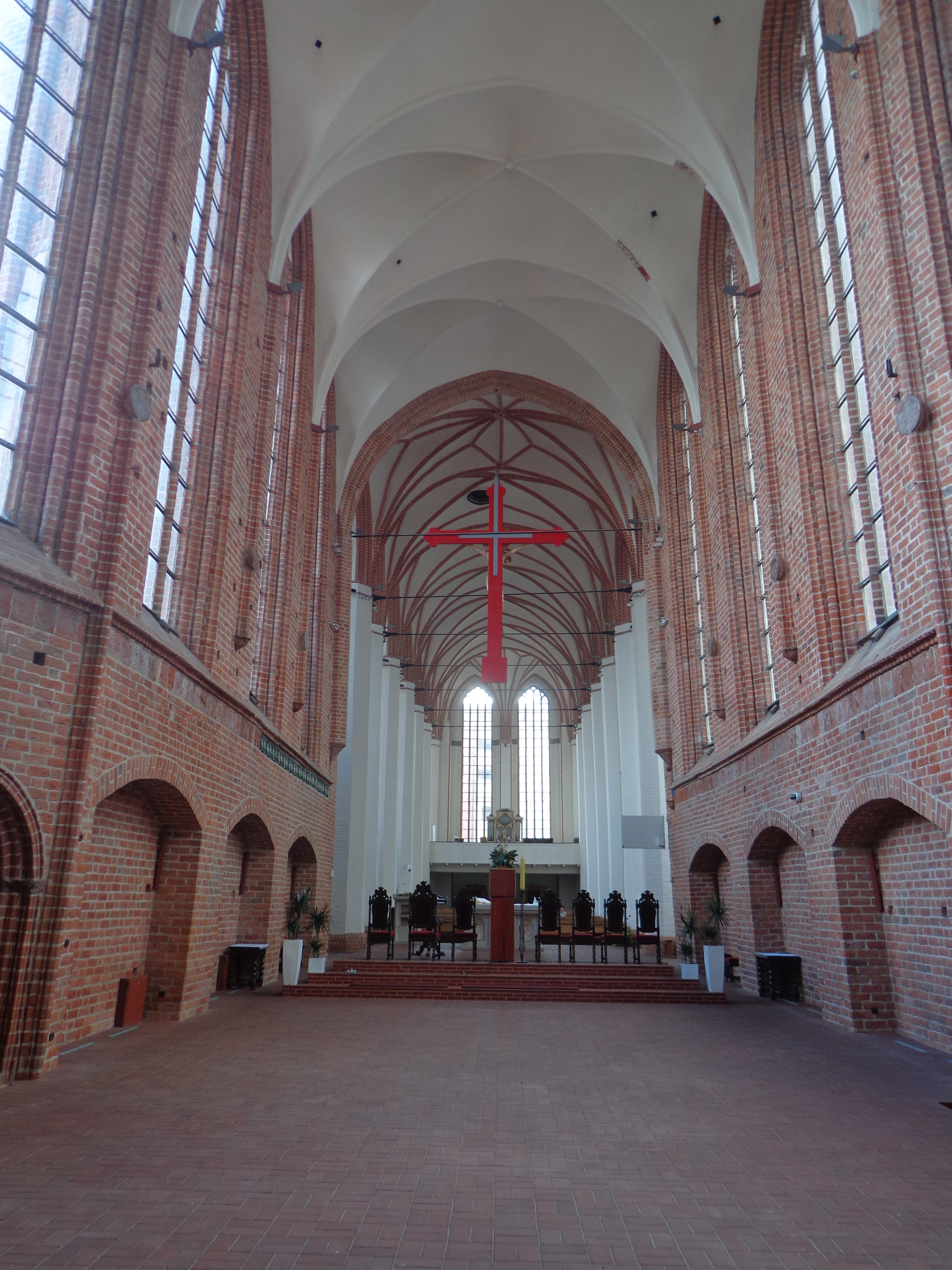 Provide all information that will help others understand what this file represents.